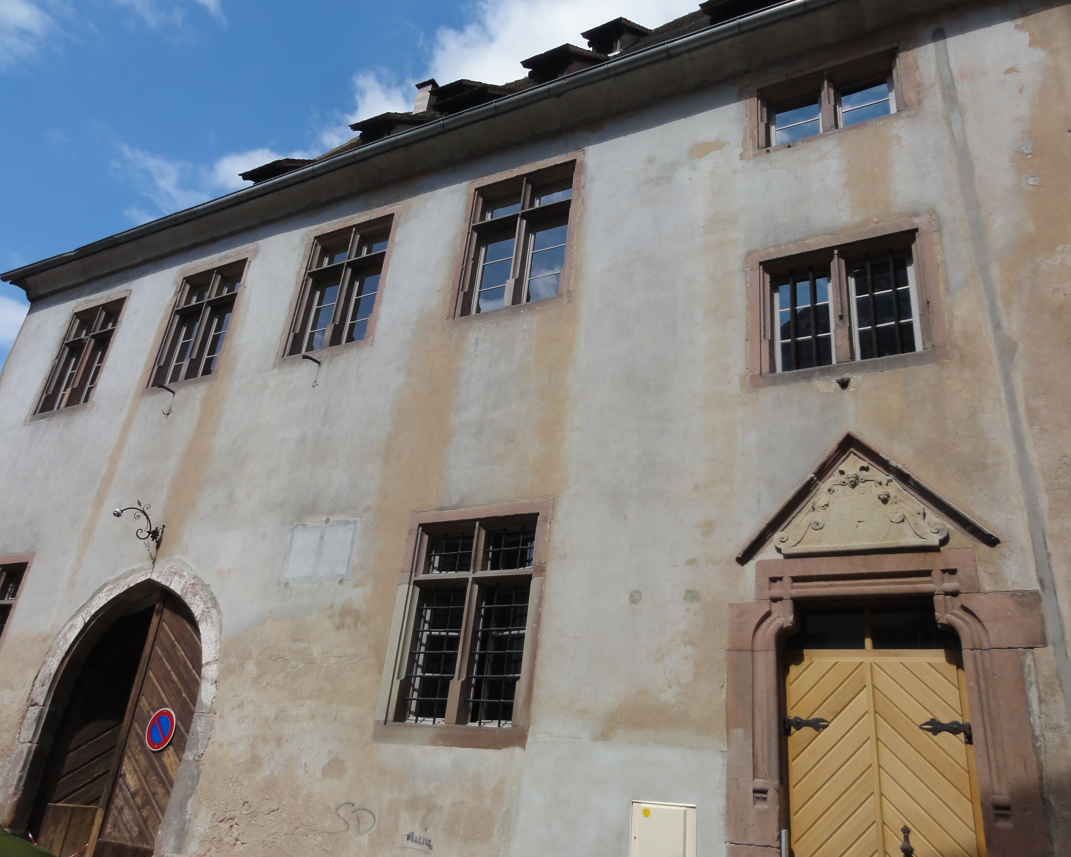 Alsace, Bas-Rhin, Sélestat, Ancien grenier du Prieuré des Bénédictins (1601), rue Sainte-Foy. It is indexed in the Base Mérimée, a database of architectural heritage maintained by the French Ministry of Culture, under the references PA00085002 and IA00124598.